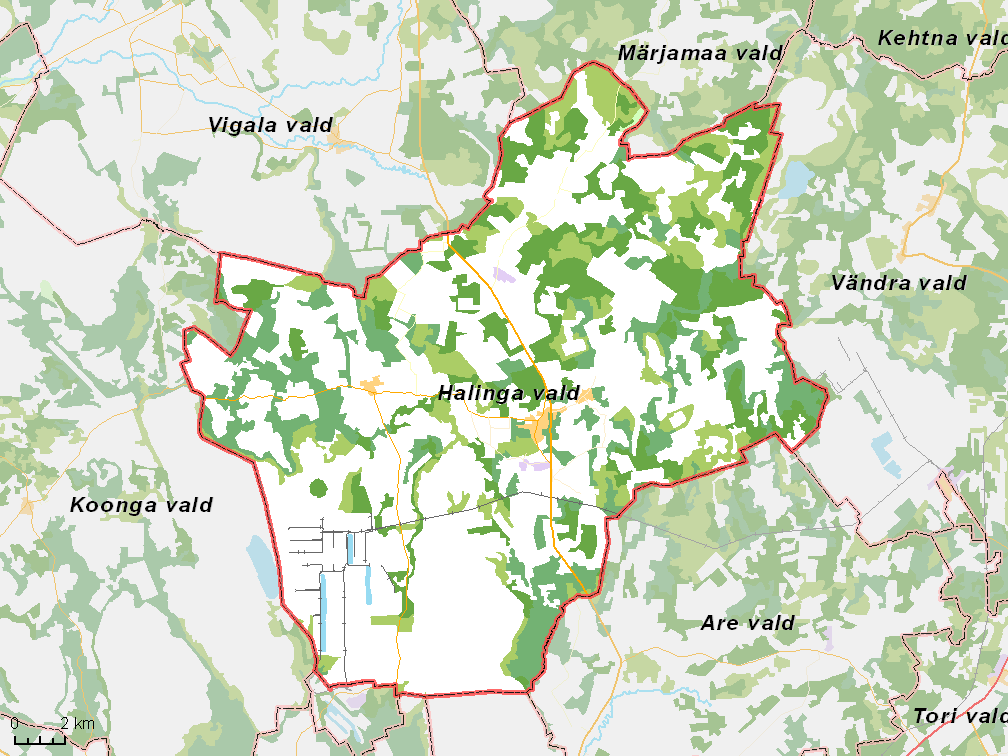 Map of municipality in Estonia